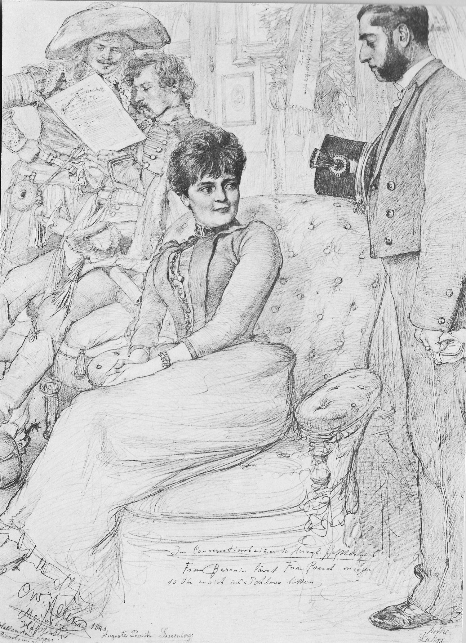 Actress Auguste Prasch-Grevenberg. Hoftheater Meiningen, Germany.